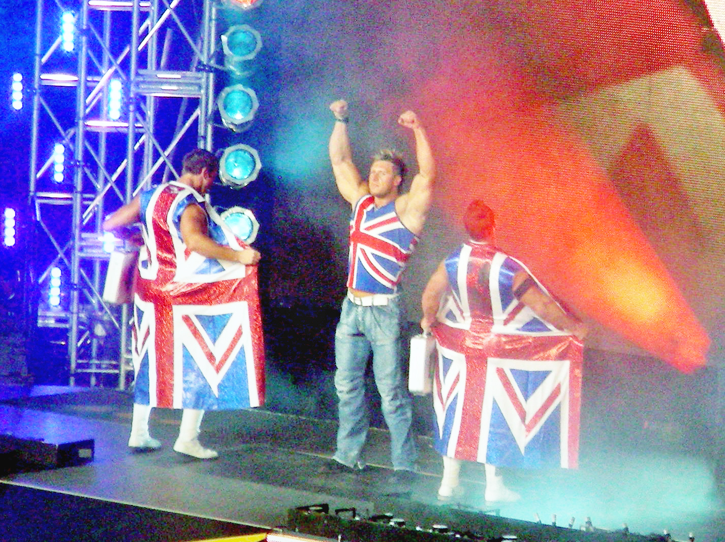 Enterance of The British Invasion!